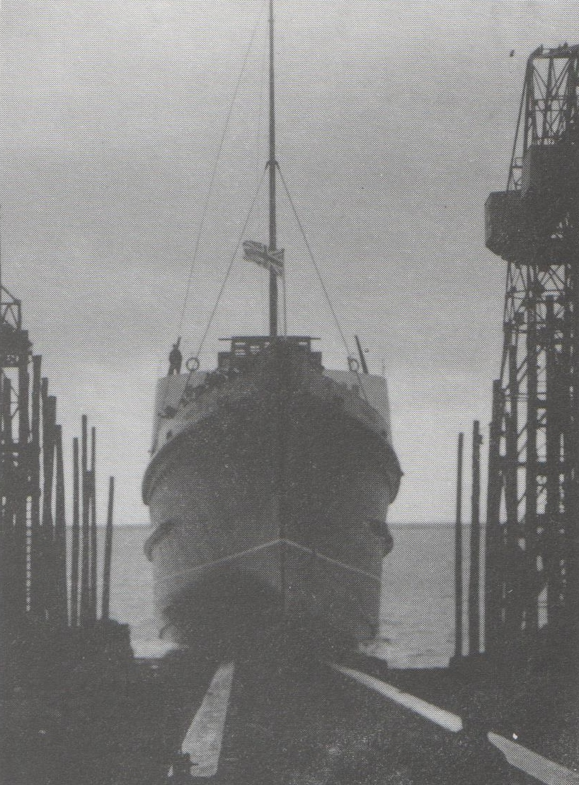 Tynwald pictured at he launch at Barrow-in-Furness